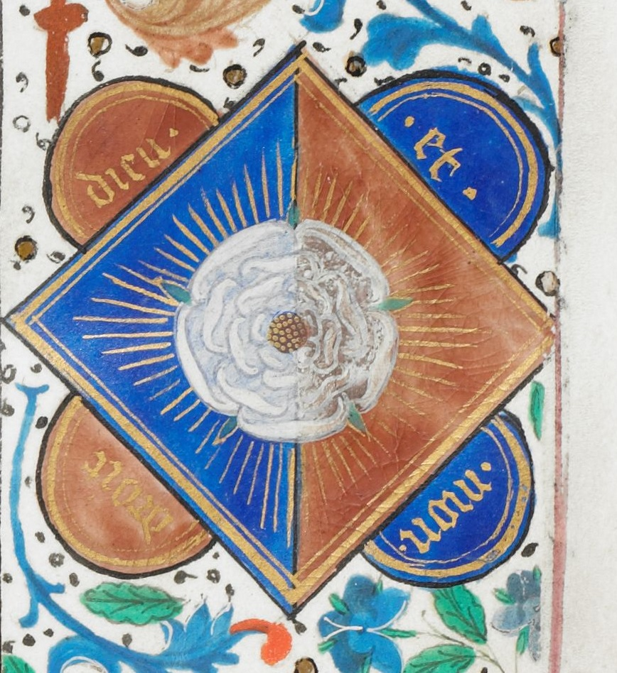 Yorkist rose, as heraldry for Edward IV, A detail from File:BL Royal Vincent of Beauvais.jpg, Miroir historial, vol. 1 Vincent of Beauvais, Speculum historiale, trans. into French by Jean de Vignay), Bruges, c. 1478-1480, Royal 14 E. i, vol. 1, f. 3